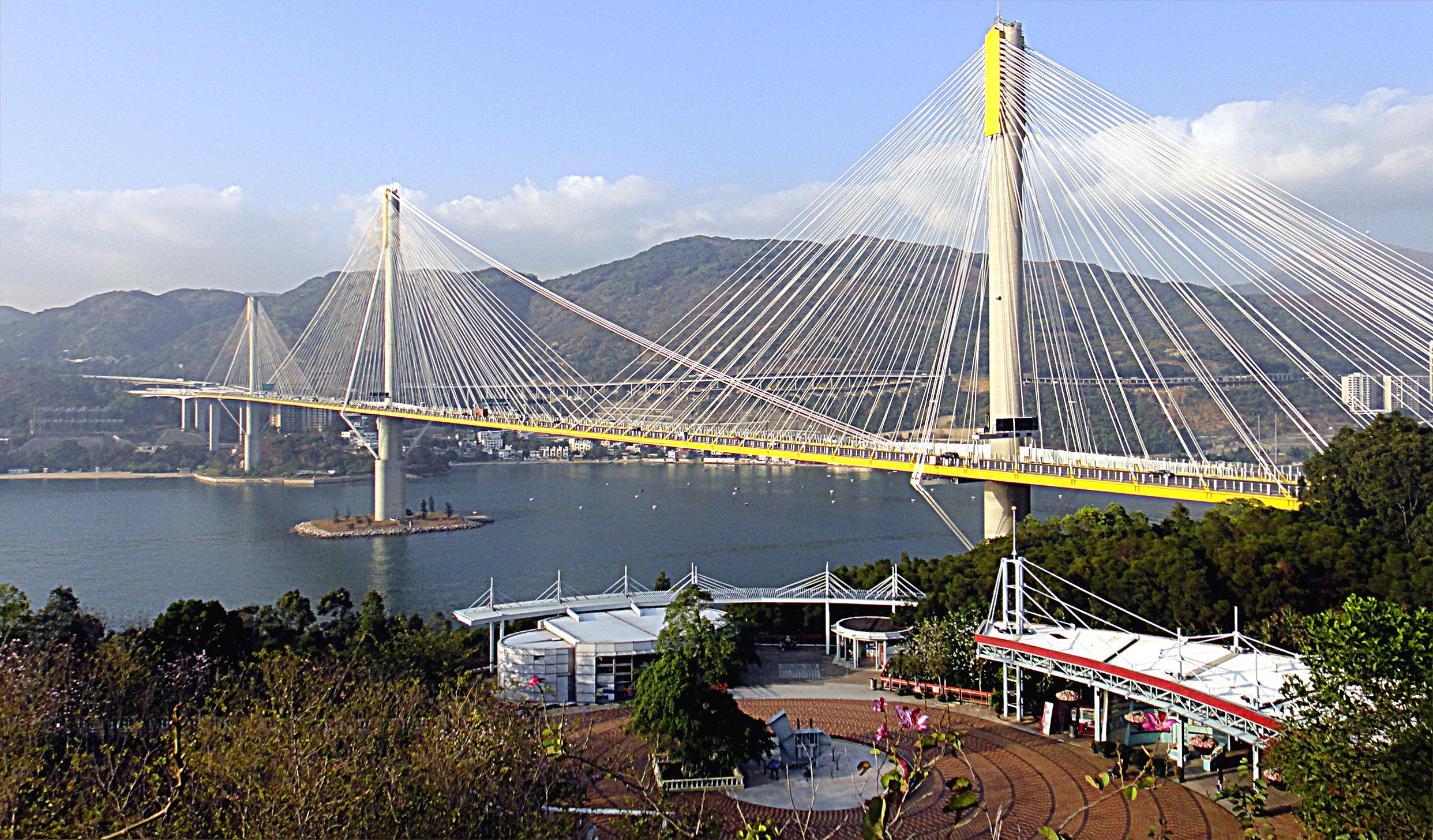 Lantau Link Visitors Center